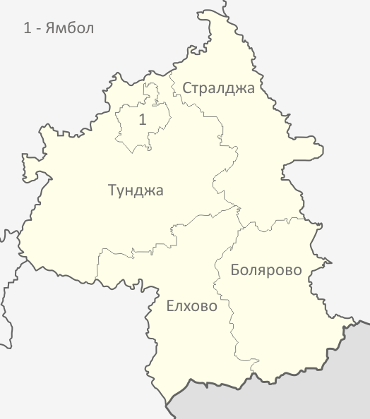 Map of Yambol Province — in Bulgaria The former Yambol District or Yambol okrug (pre-1999).